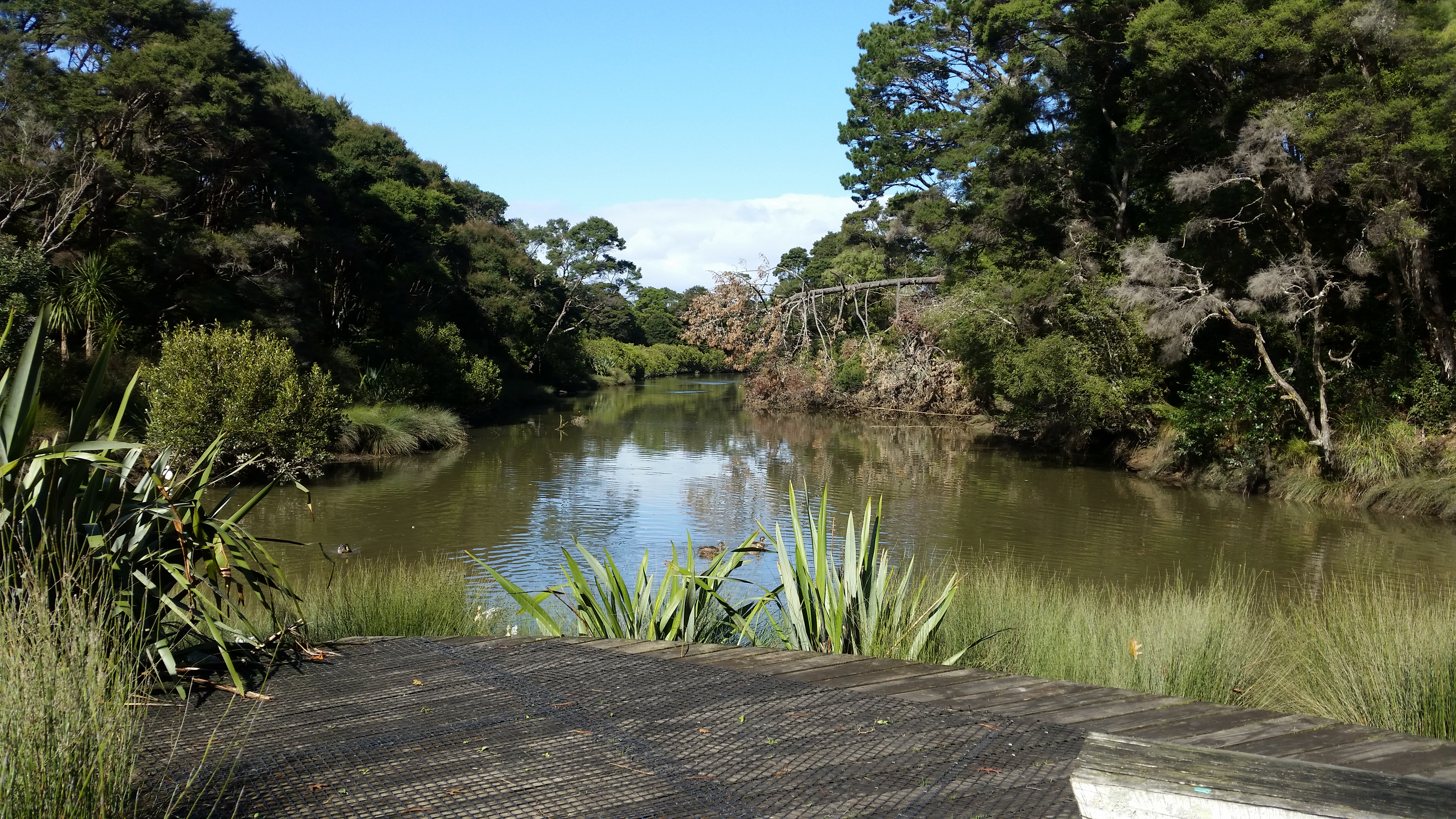 Lucas Creek seen from a platform in Kell Park, Albany, Auckland, New Zealand.